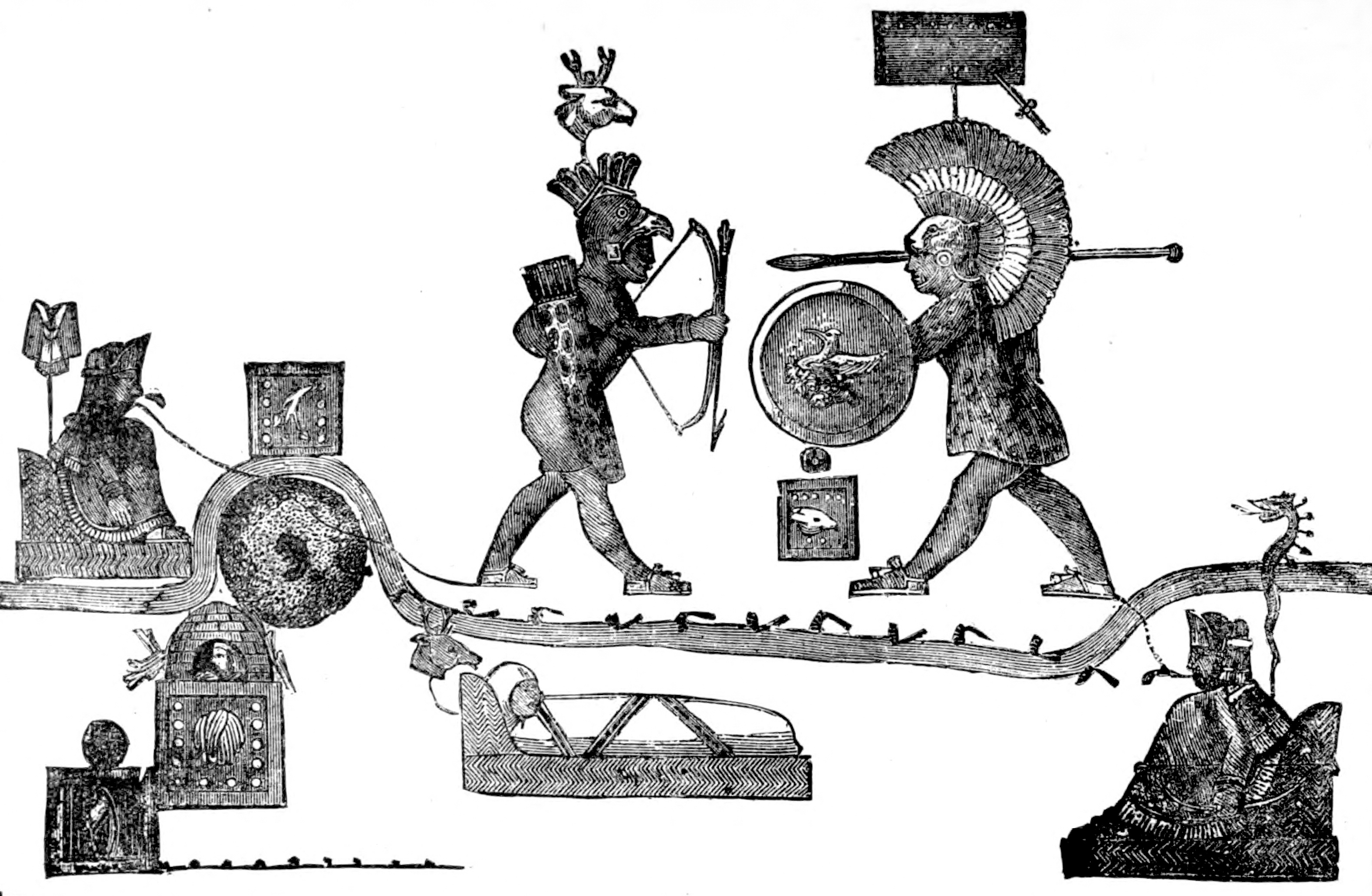 The image caption is the same image caption in the book, "Young Folks History Of Mexico"